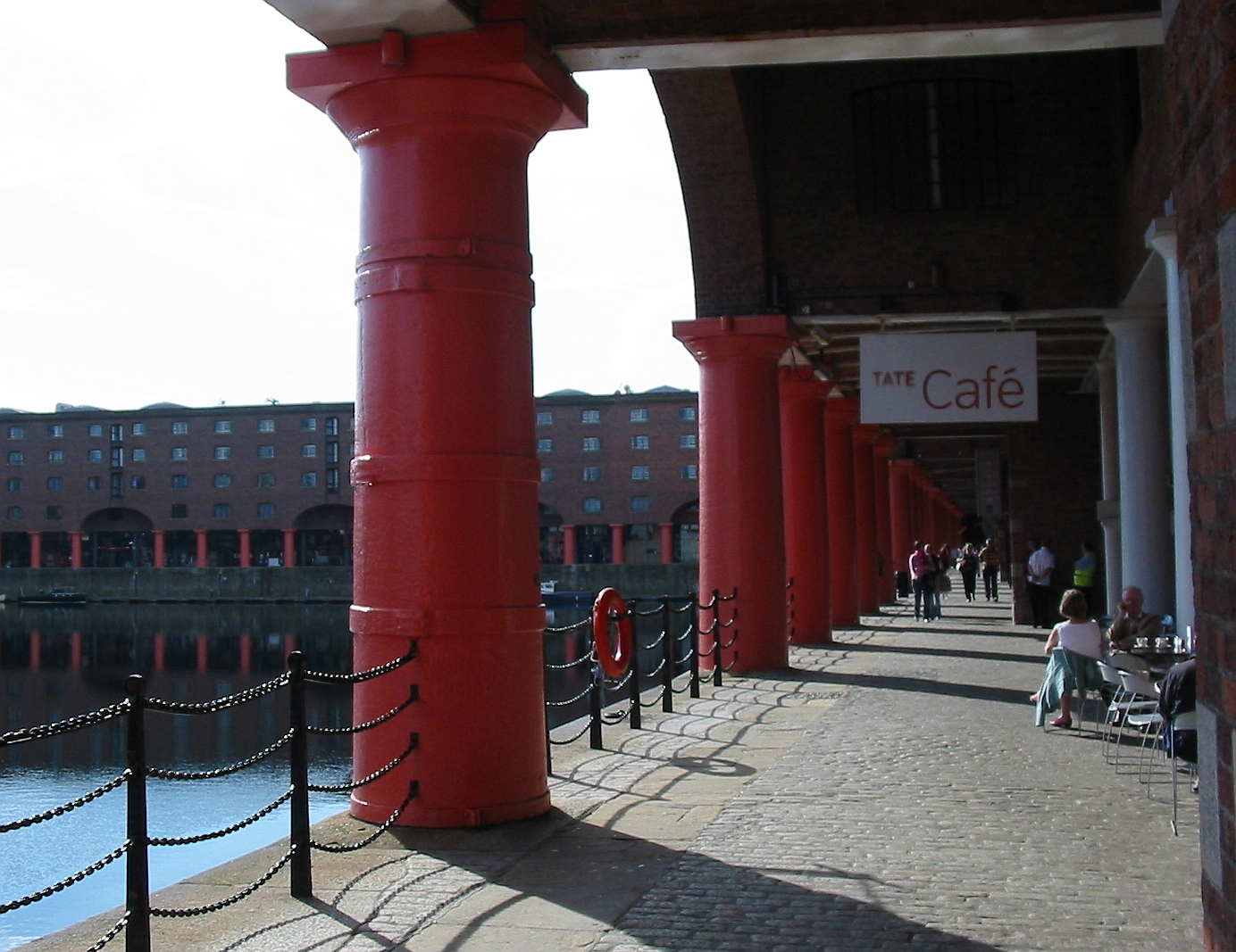 Nrf: Liverpool